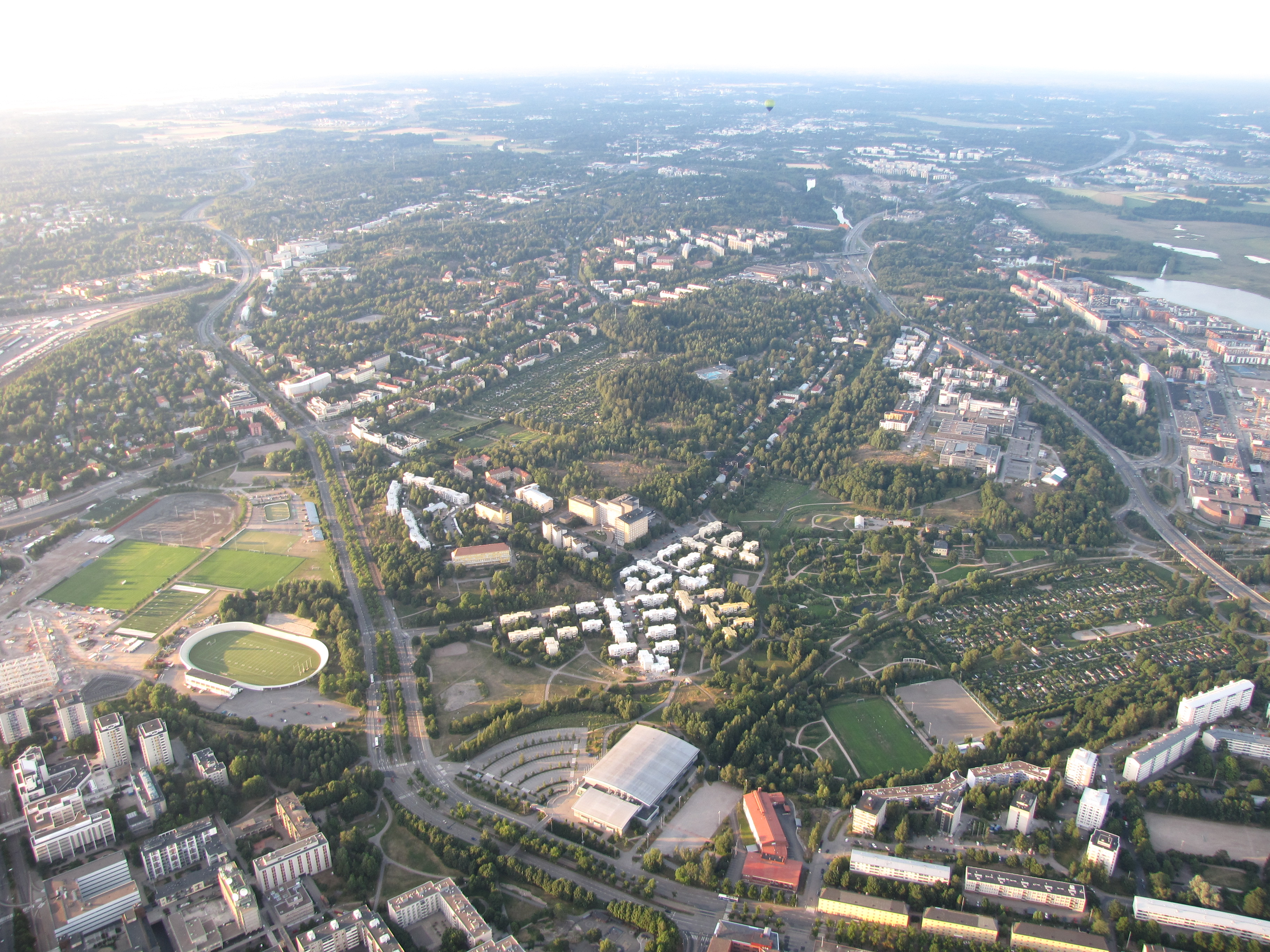 Vallila and Kumpula photographed from a hot air balloon. Mäkelänkatu street on the left and Kustaa Vaasan tie road on the right.